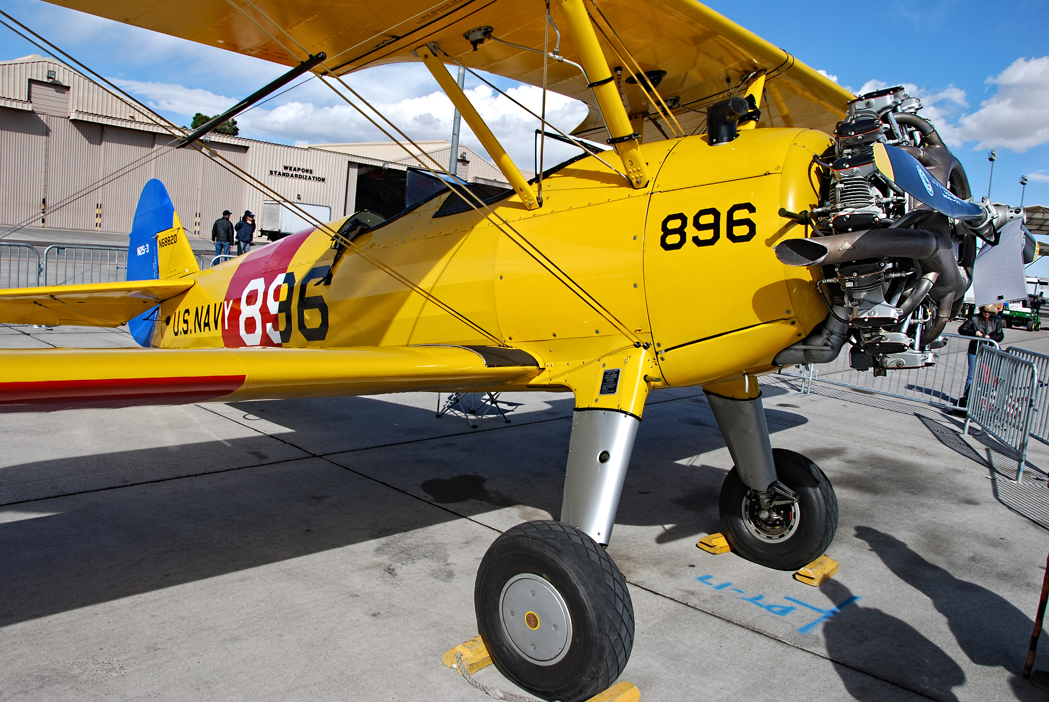 Aviation Nation 2012 Las Vegas - Nellis AFB (LSV / KLSV) USA - Nevada, November 10, 2012 Photo: Tomas Del Coro